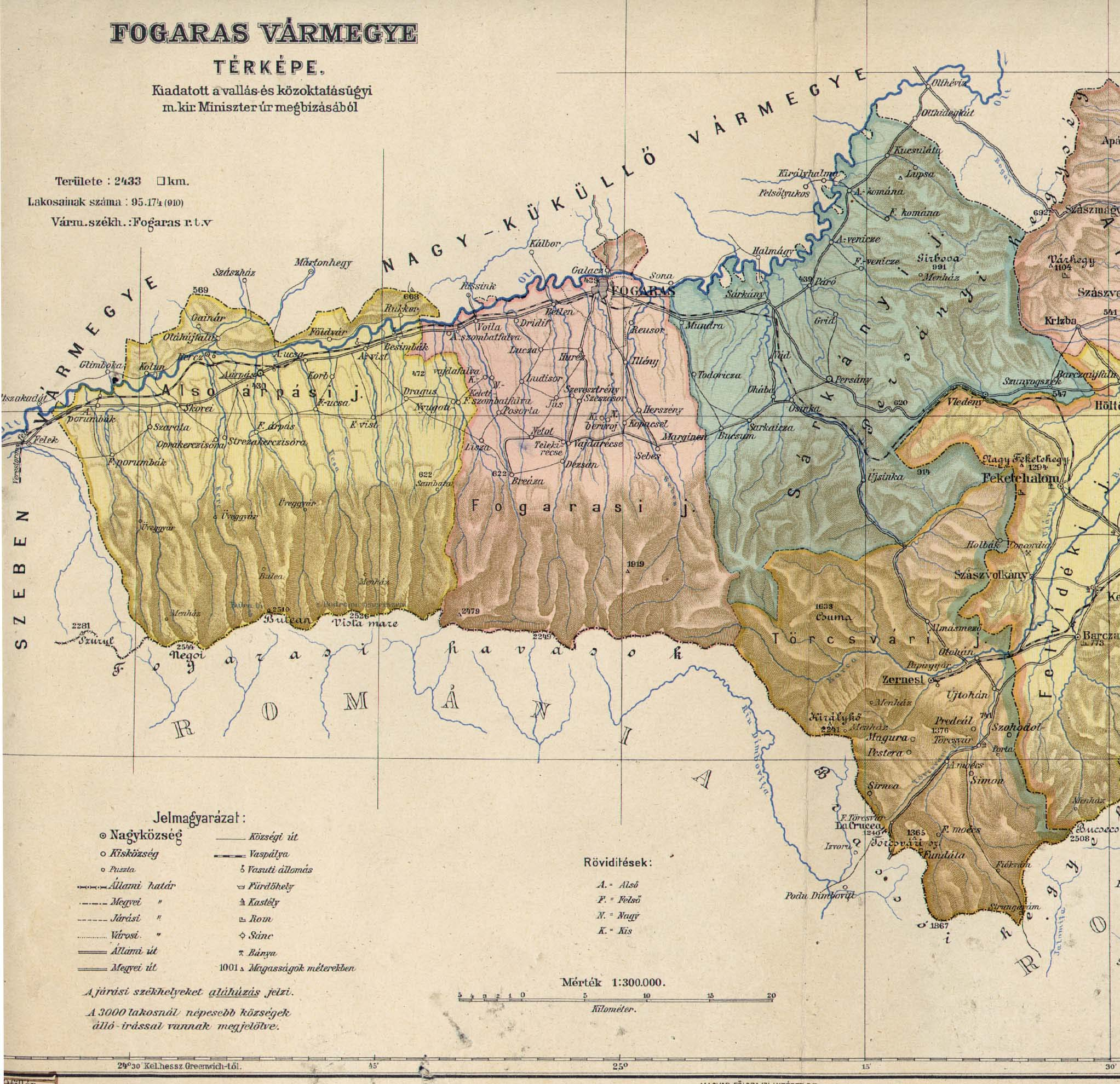 Administrative map of the county of Fogaras in the Kingdom of Hungary